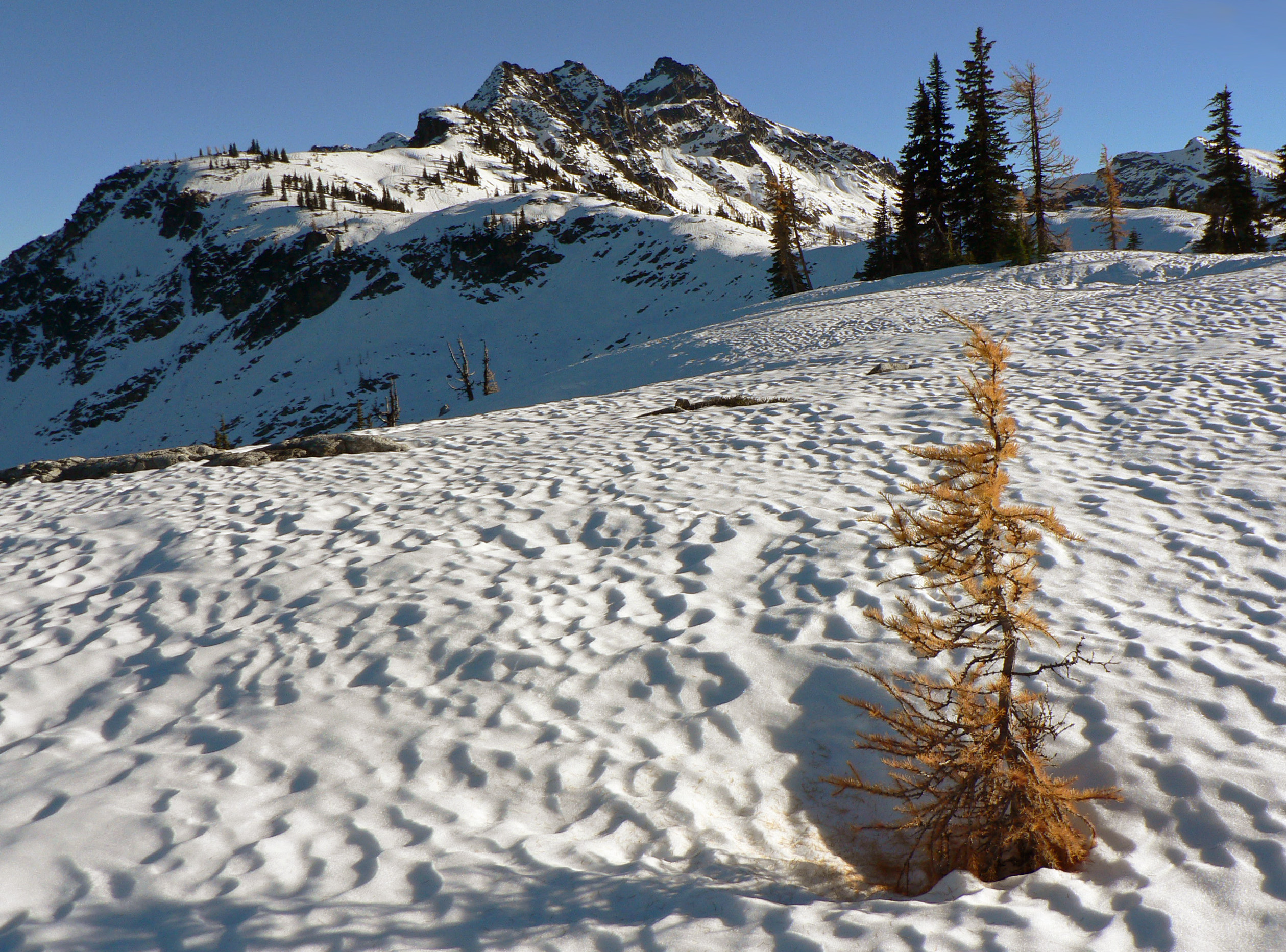 Subalpine Larch, Frisco Mountain (7760+ feet/2365 m, center)